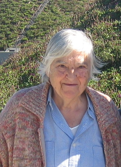 Etel Adnan, poet and writer, in 2008.